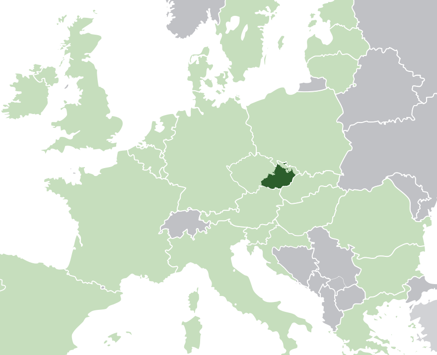 Location of Moravia in Europe.